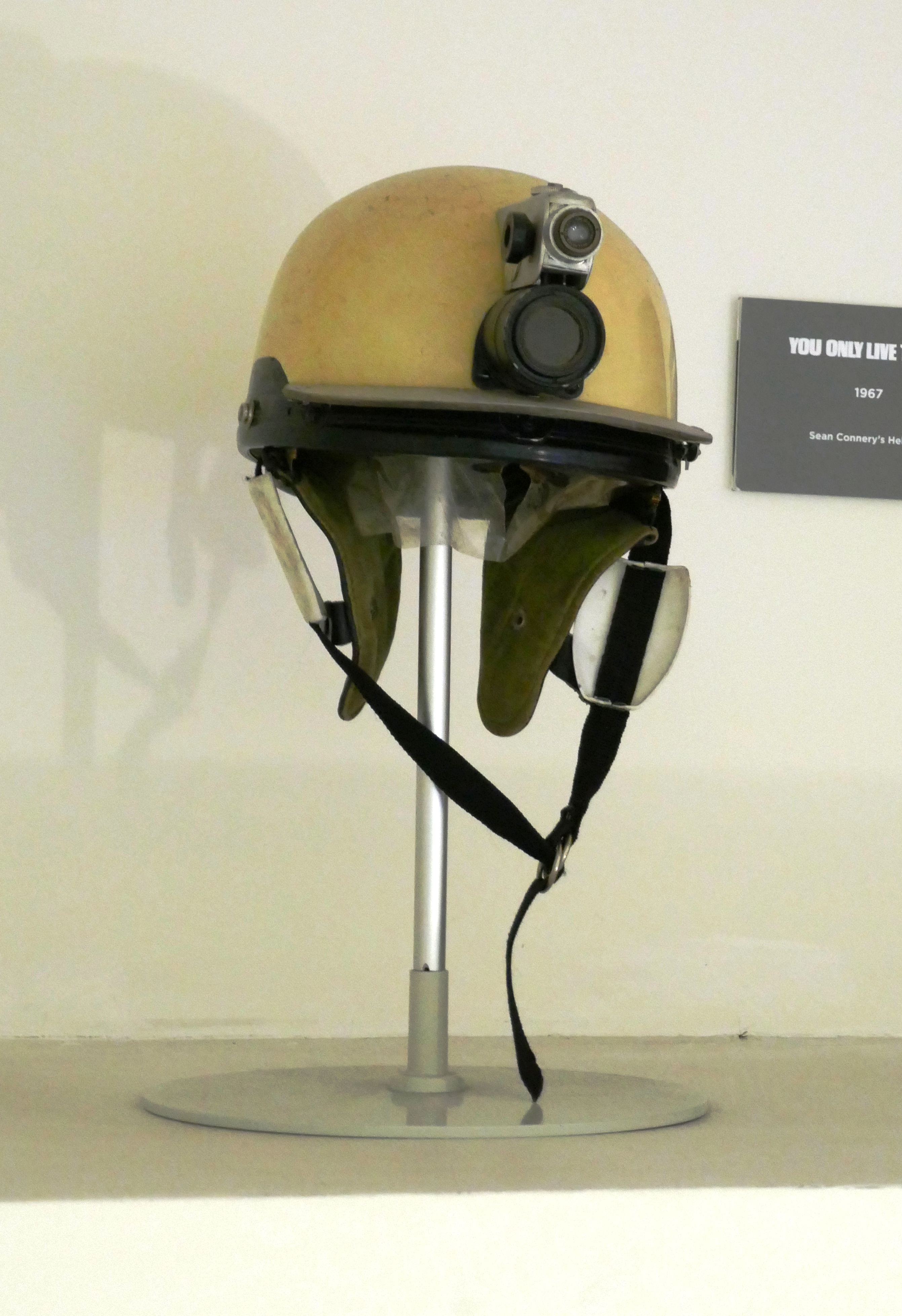 Sean Connery's Helmet from the movie "You Only Live Twice" National Film Museum, London - Bond in Motion Exhibition (2017)